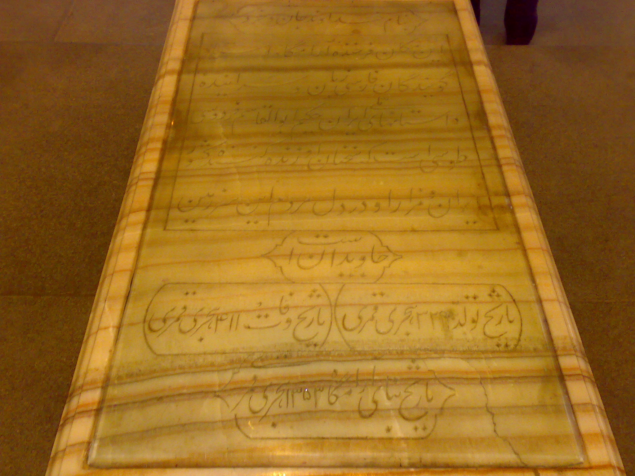 ferdowsi tomb